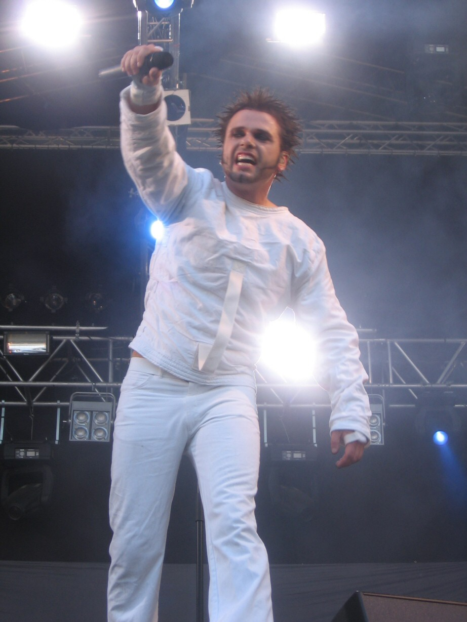 Dero, the singer of Oomph!, at Ruisrock 2006 (Turku, Finland).